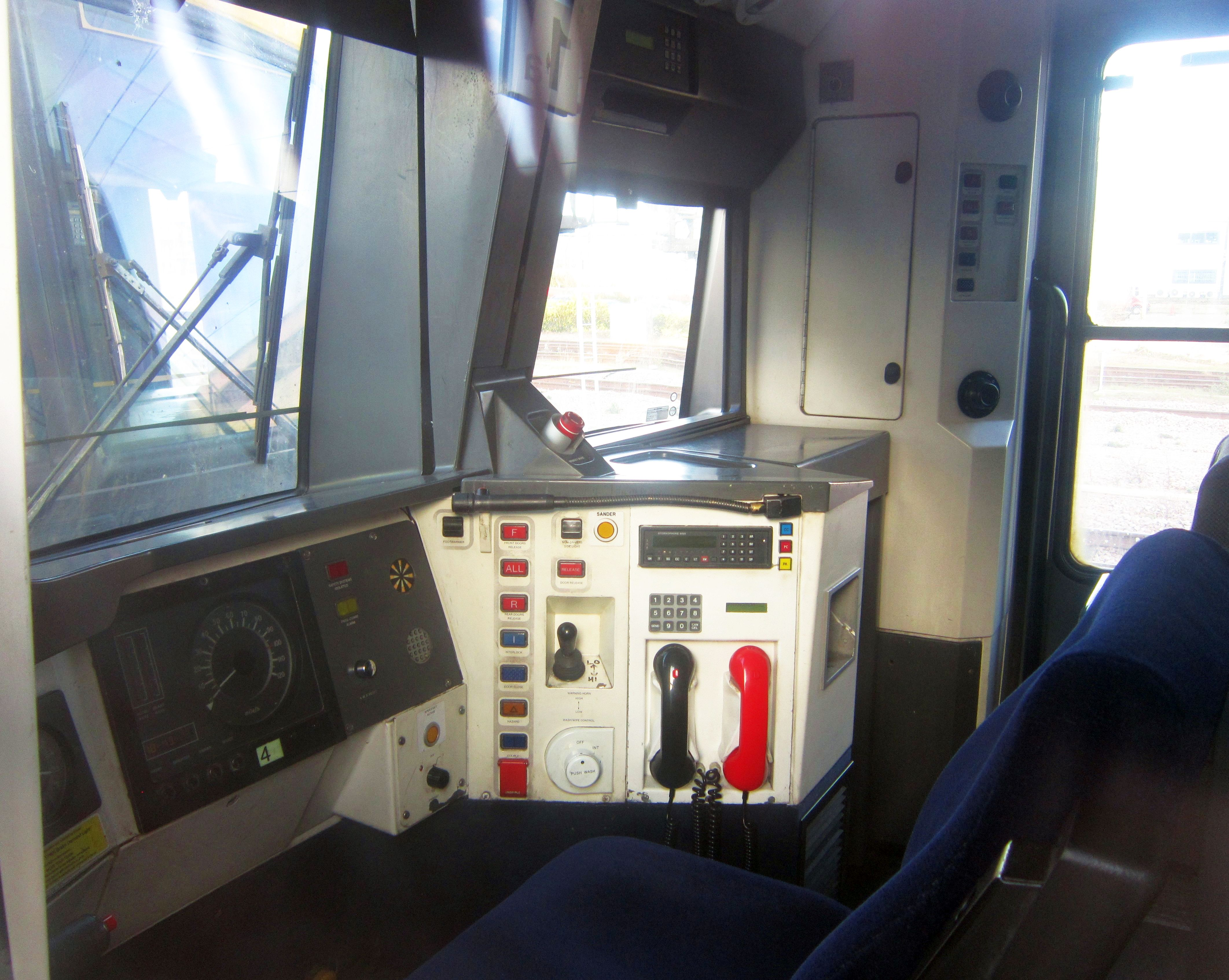 British Rail Class 365 driver's cab.